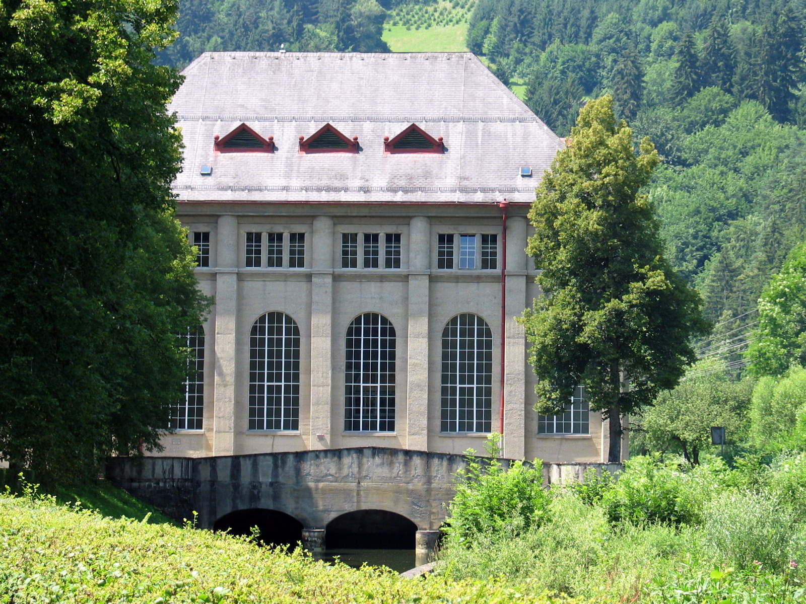 Powerhouse Arnstein at the river Teigitsch in Styria / Austria / European Union.